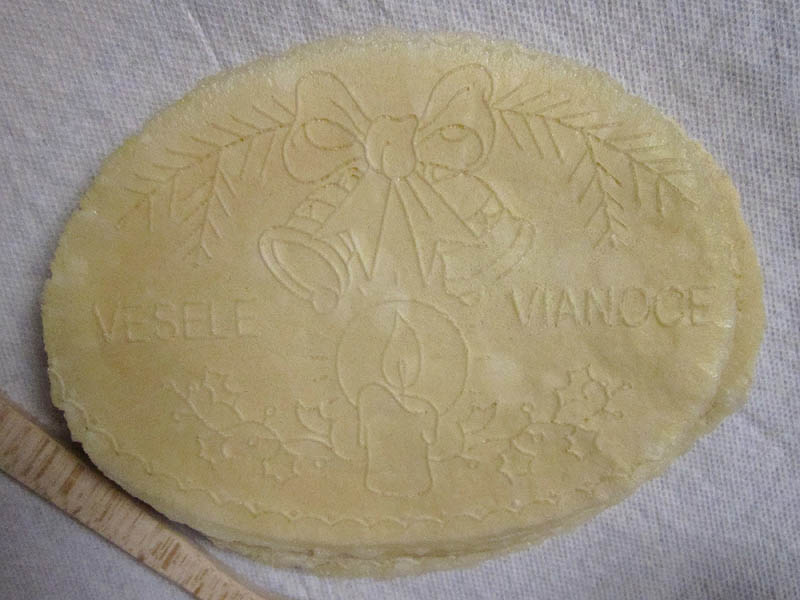 traditional Slovak Christmas wafers